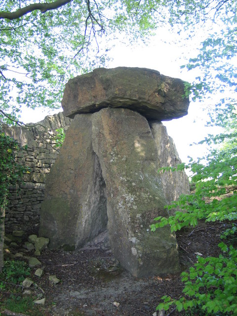 Three Shire Stone This is not the ancient monument that it first appears, but an eighteenth century folly erected at the meeting of the ancient counties of Gloucestershire, Somerset and Wiltshire.